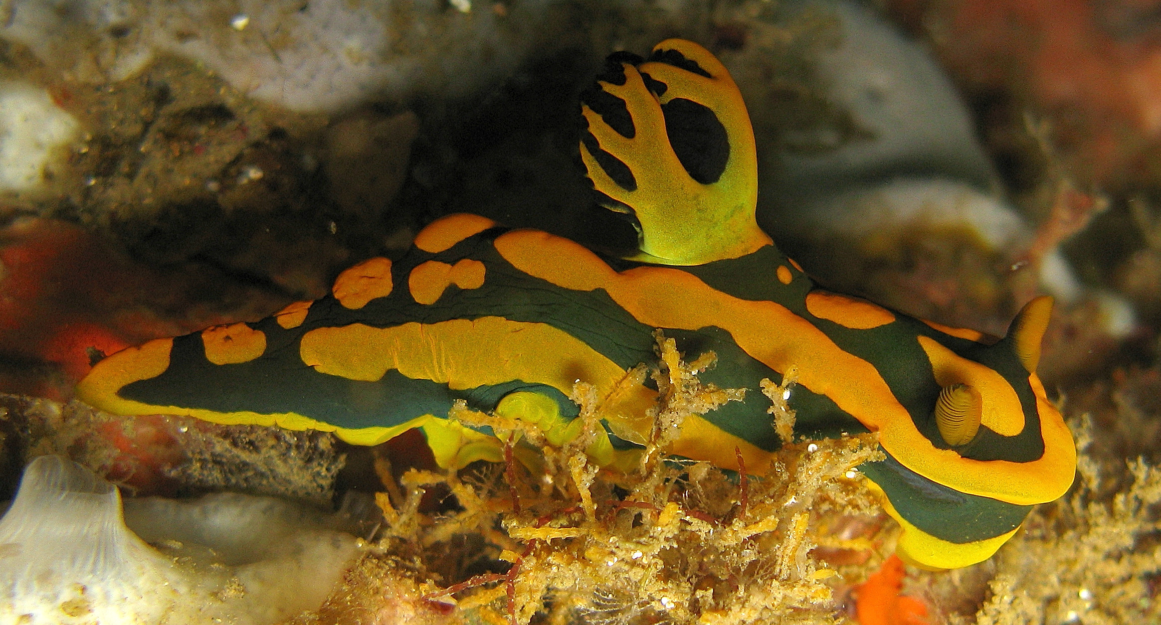 Tambja gabrielae (NOTE: this species was incorrectly identified as Tambja sagamiana on Flickr.)